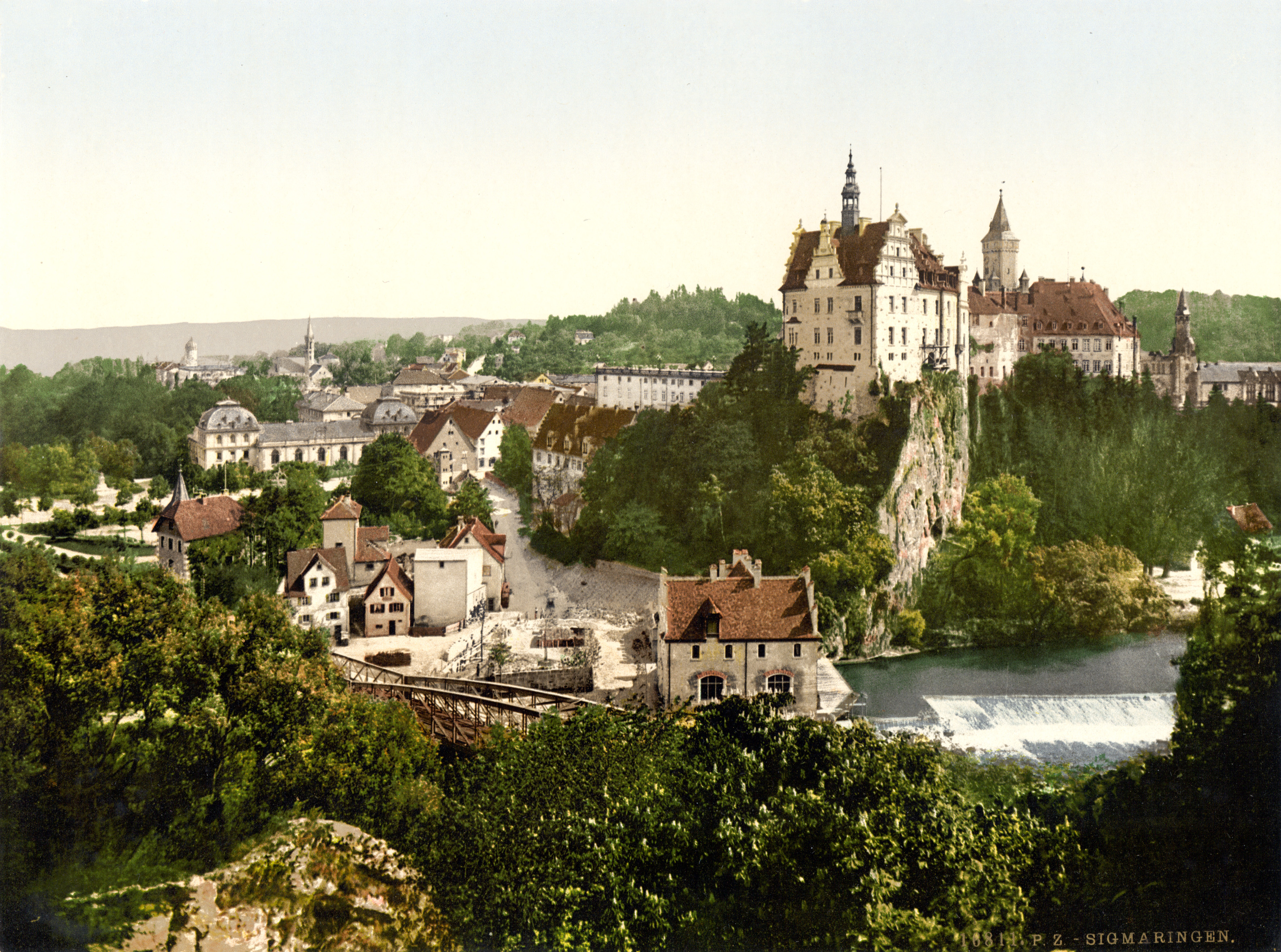 A general view of Sigmaringen in 1905.